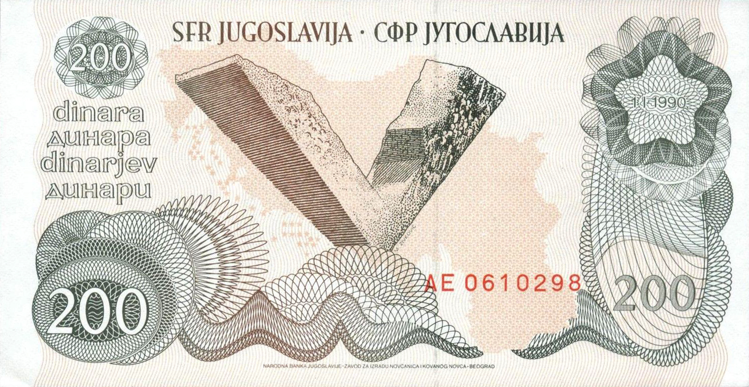 200 Yugoslav dinars (1990)